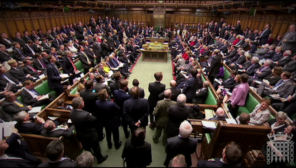 A wide shot of Prime Ministers questions (circa 2010-2012), showing a commons chamber packed with members.